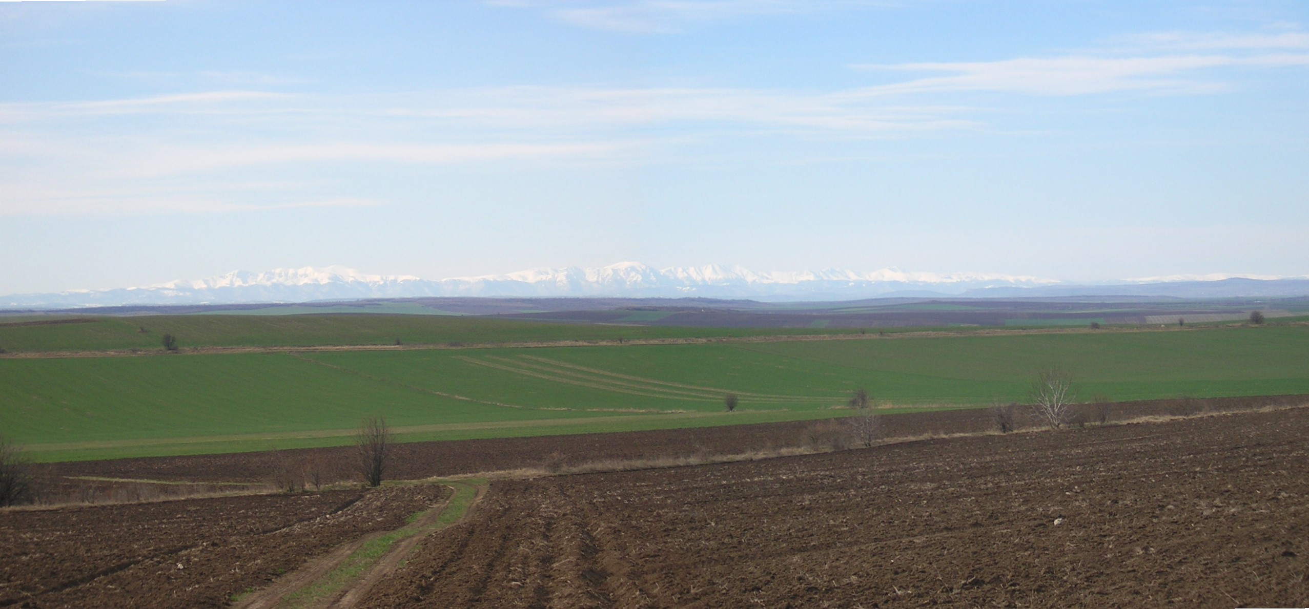 View from near Maslarovo village across the Danubian Plain towards the central Balkan Mountains (90 km distance)